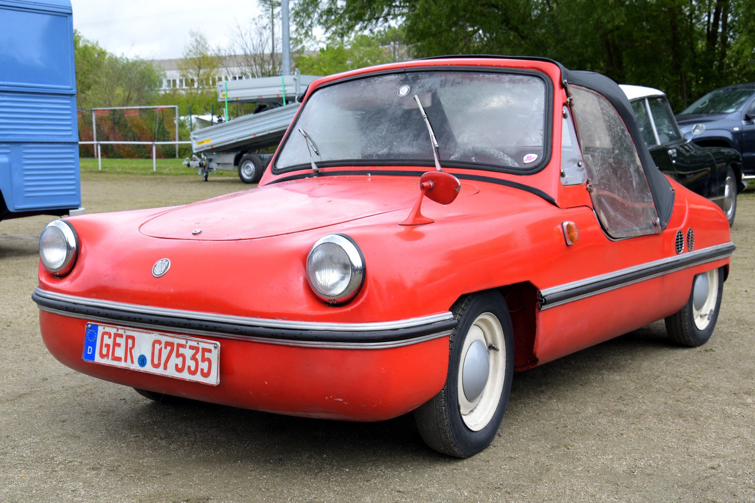 Victoria Spatz